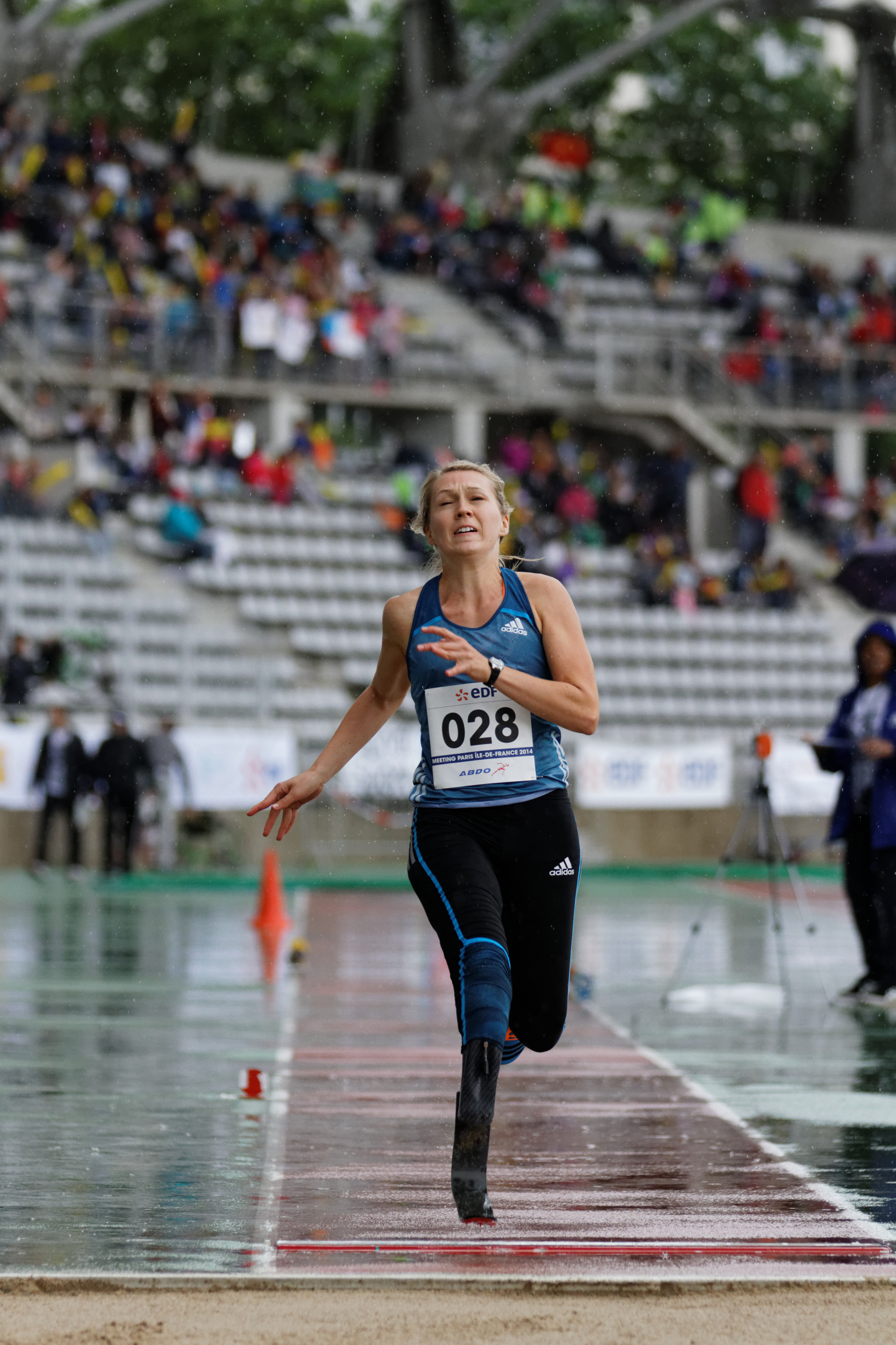 Iris Pruysen, long jump, Athletics Paralympic Meeting, June 4th, 2014, Charlety stadium.